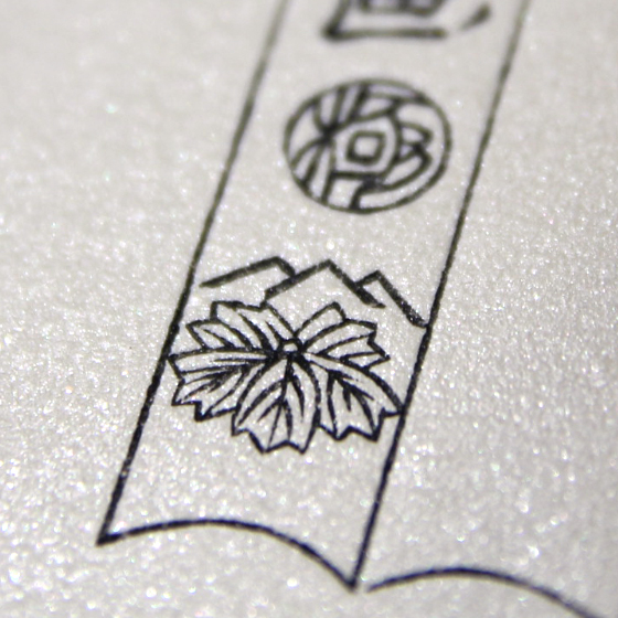 Seal of Tsutaya Jūzaburō, who published Kitagawa Utamaro and Sharaku in the 1790s.